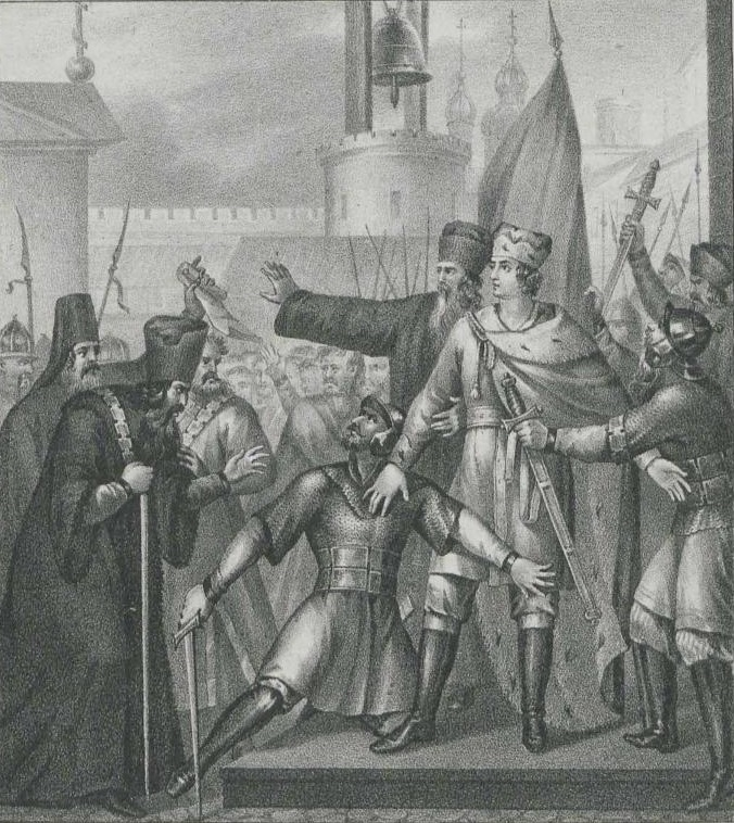 Prince Alexander Mikchailovich in Pskov, engraving by Boris Chorikov (1802 — 1866). Source [1]